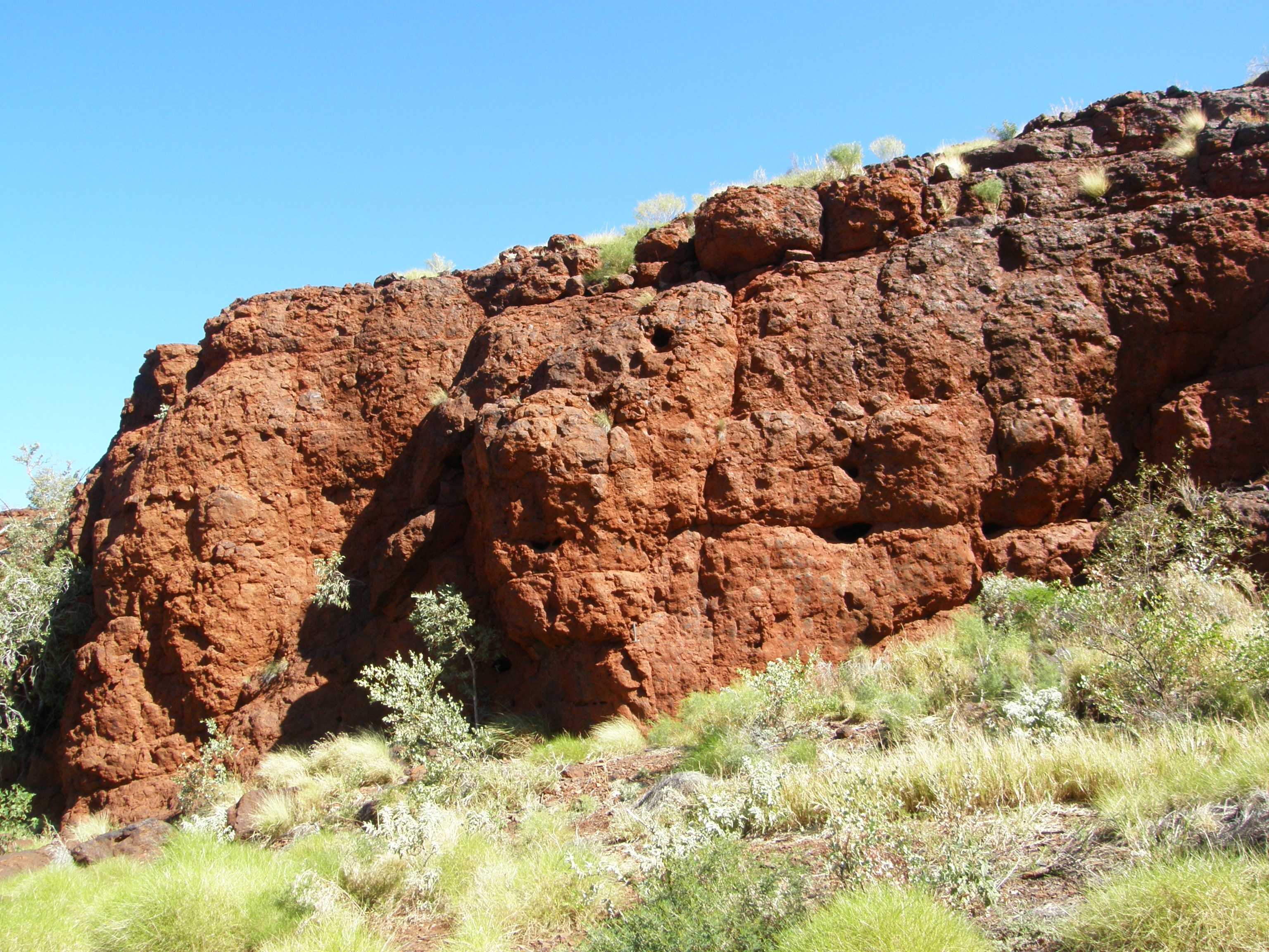 Massive channel iron ore south of Mesa J mine near Pannawonica, Pilbara, Western Australia